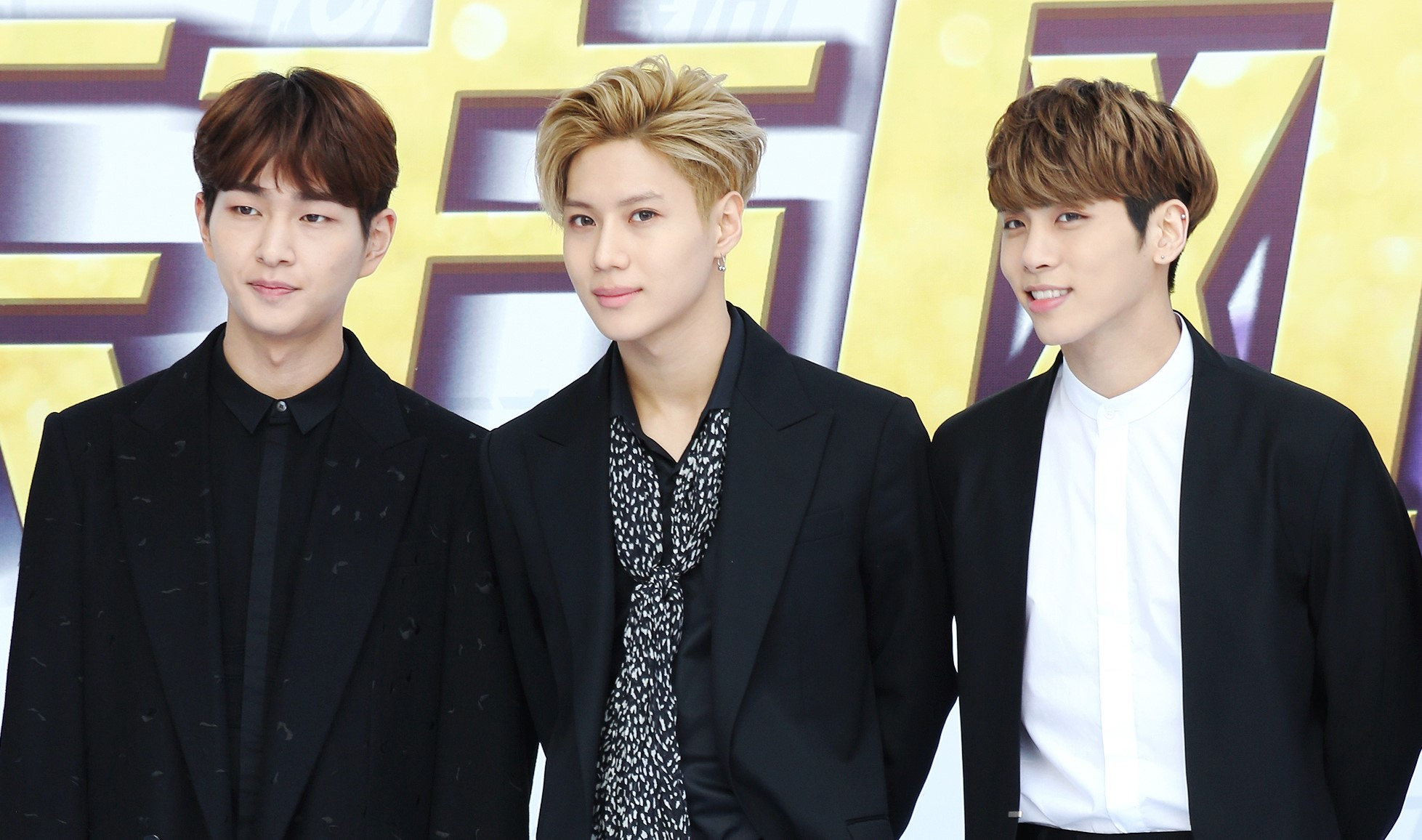 Shinee on the red carpet of the 23rd Dong Fang Feng Yun Bang Awards, on March 28 2016.